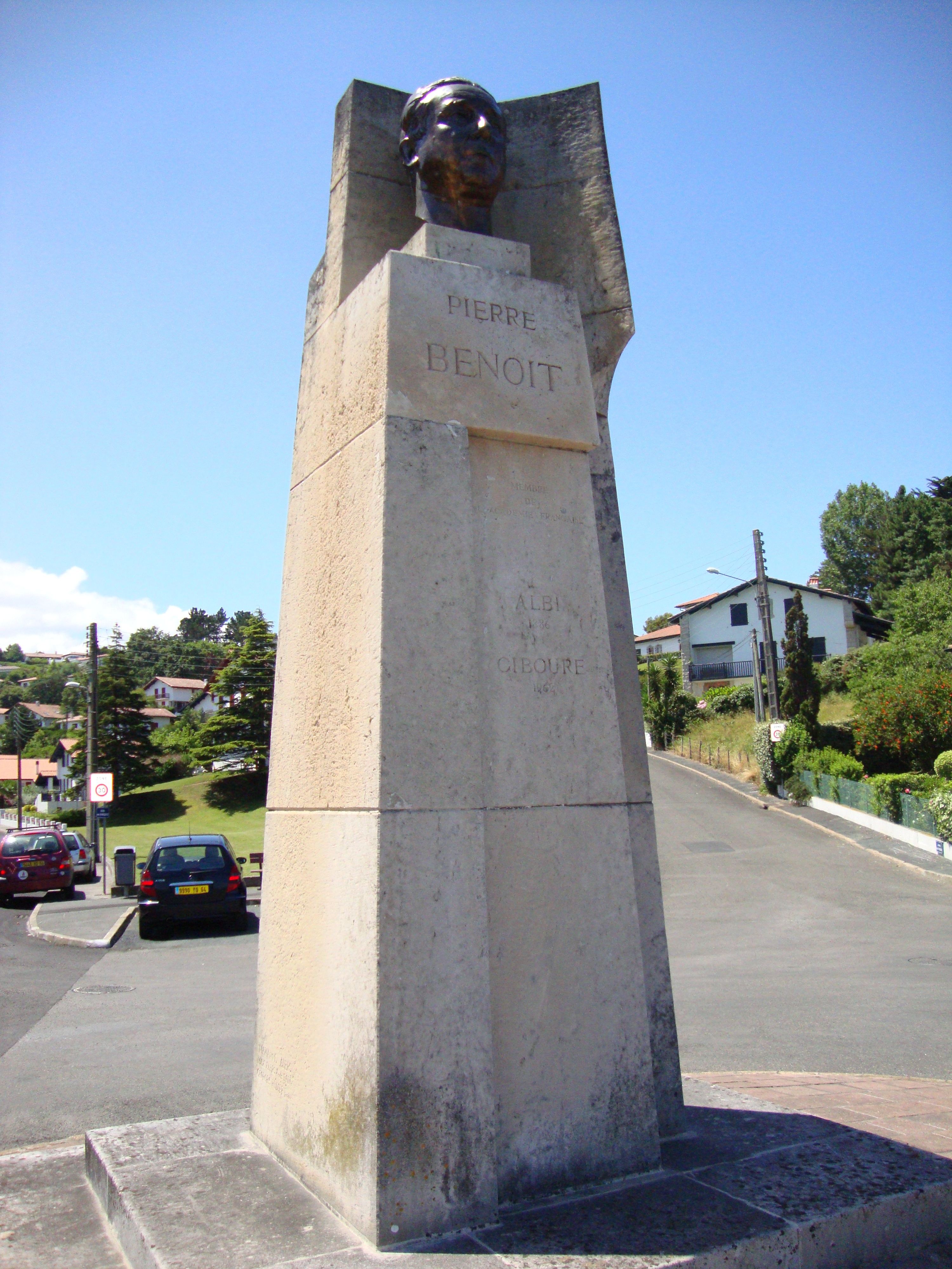 Ciboure (Pyr-Atl, Fr) Buste Pierre Benoit.